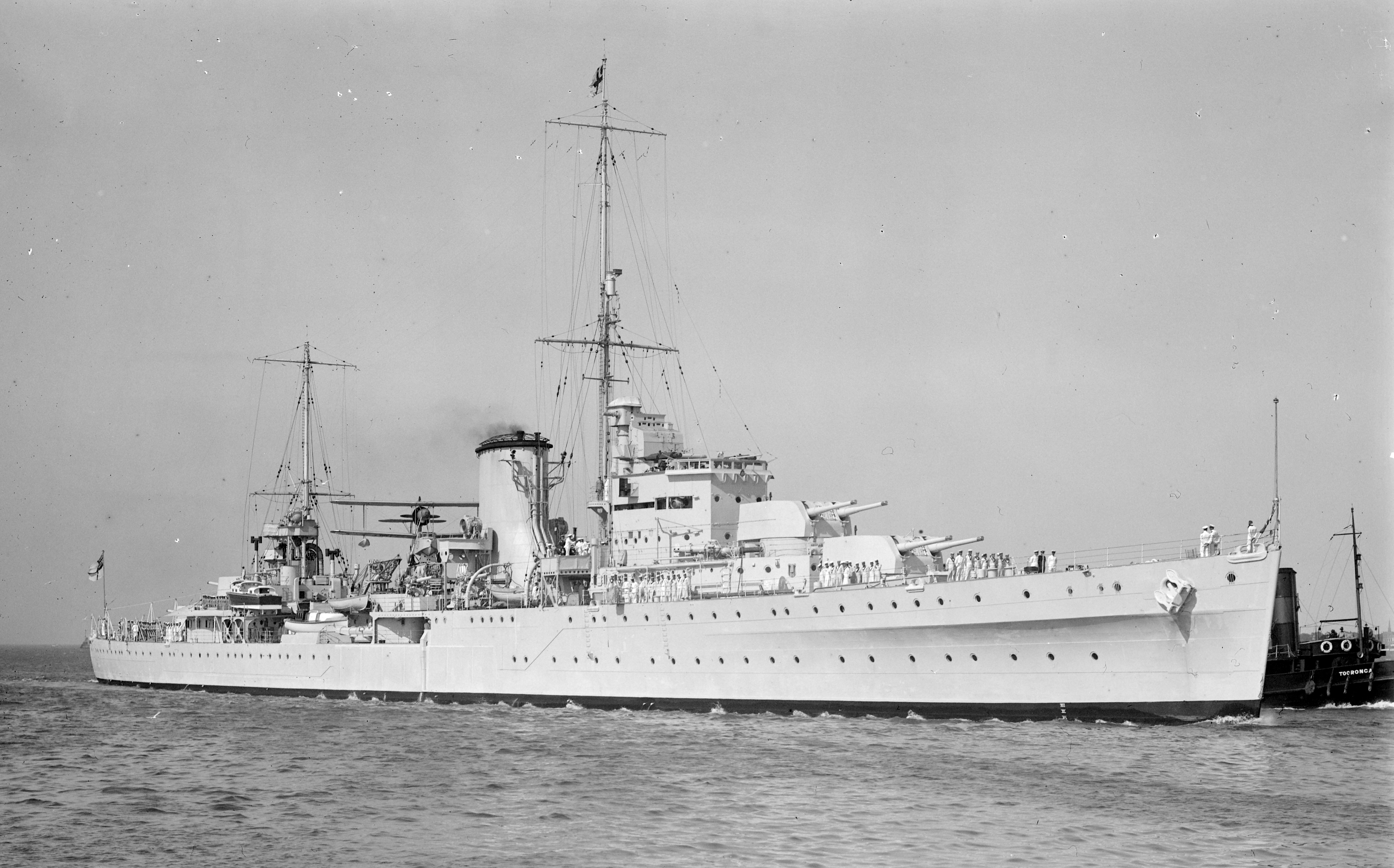 HMNZ Achilles